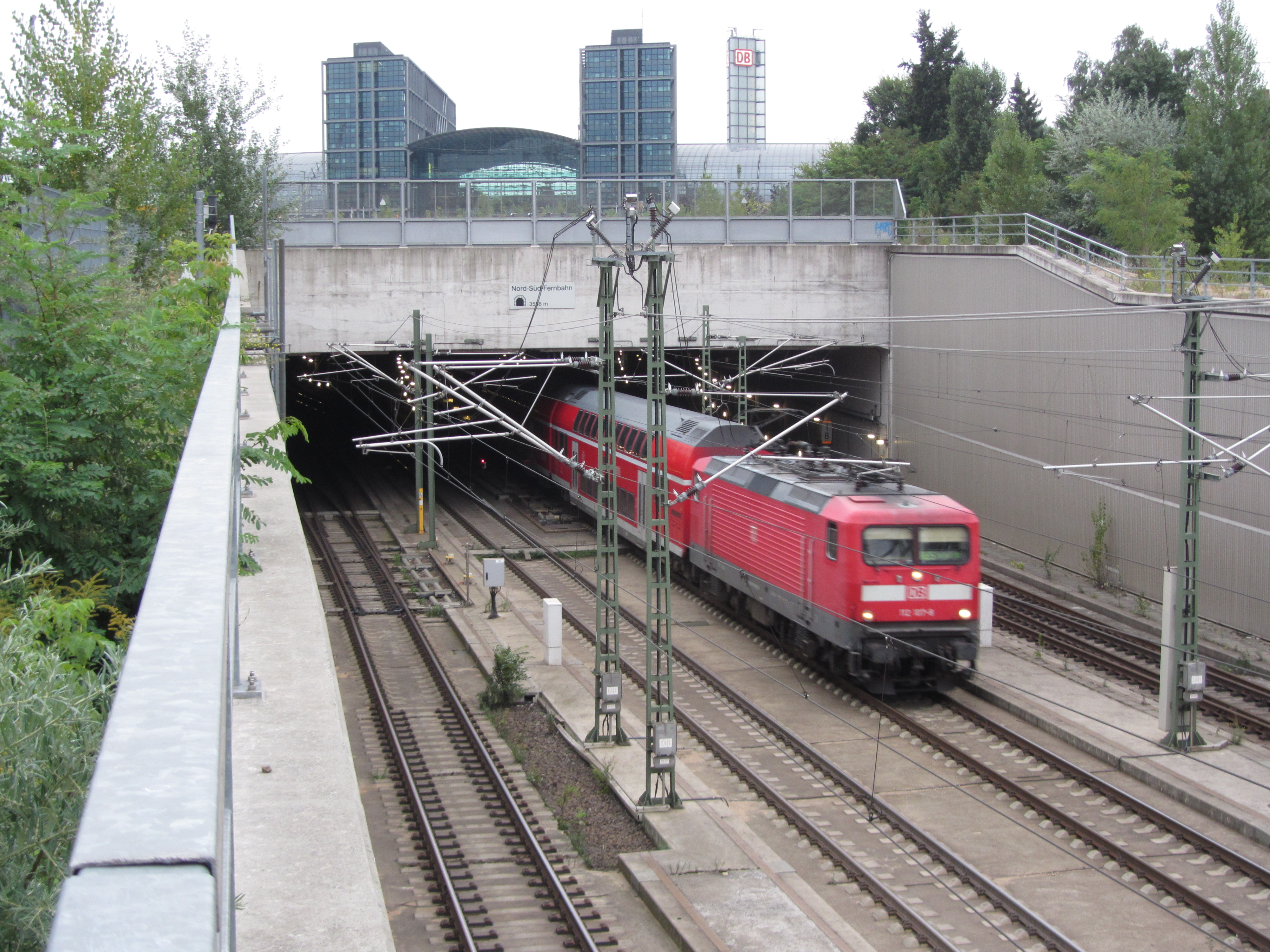 A train leaves the northern tunnel mound from Berlin central station